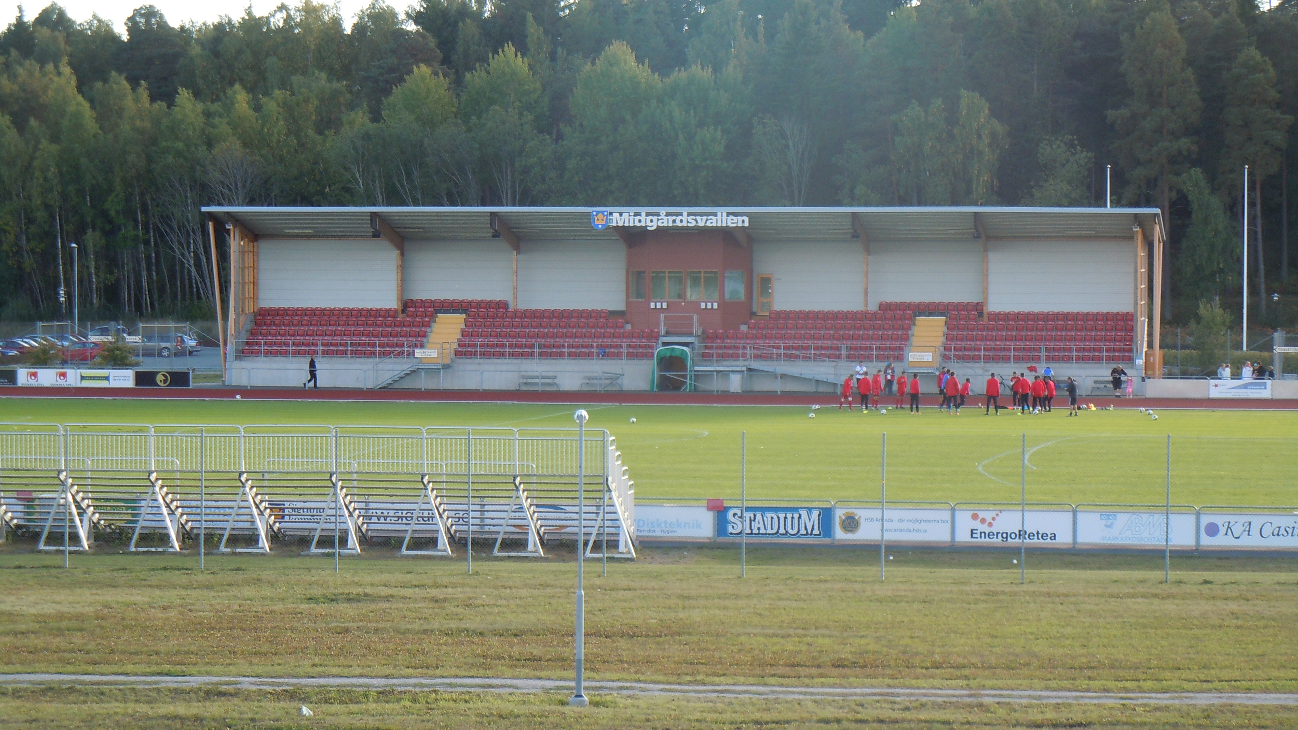 Midgårdsvallen arena.